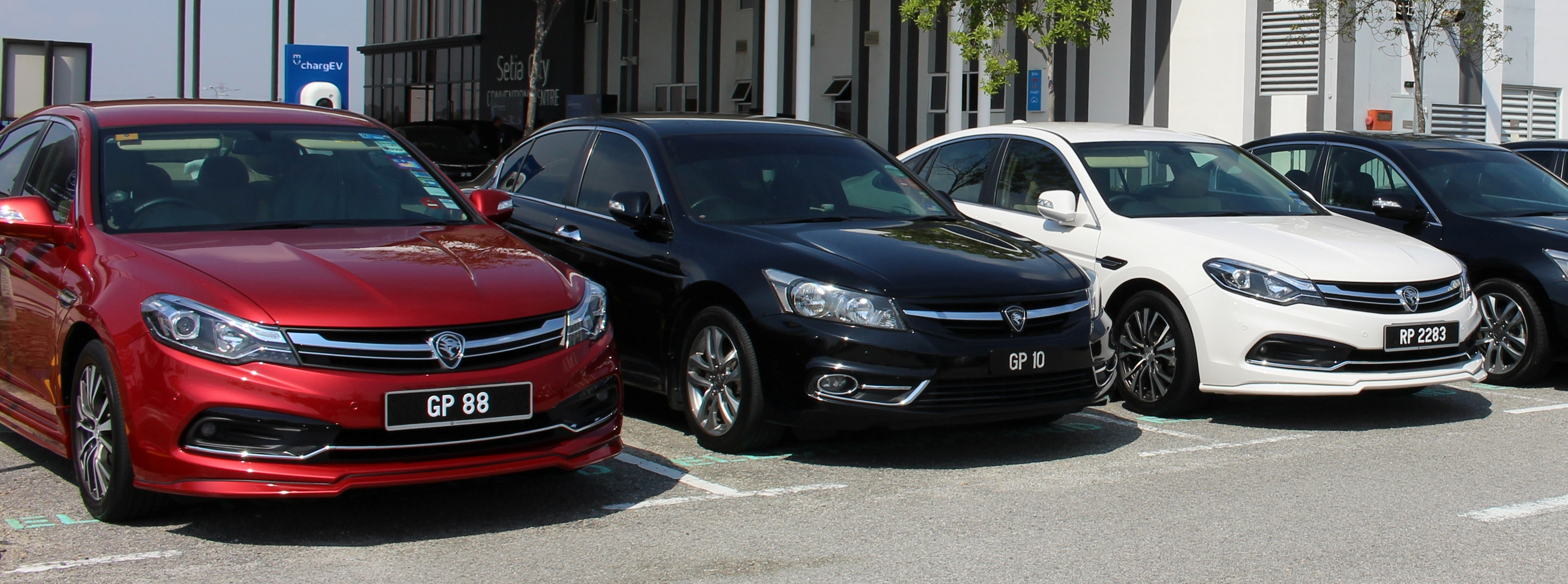 The red and white ones are 2016 Perdanas, which launched earlier in June. The 2016 Perdana is still based on the CP Accord platform, and uses Honda's VTEC engines, but Proton has completely re-engineered the exterior. It's currently the most expensive Proton on sale, as much as RM 139k or about USD$ 34k. It will not be exported, not in the short term at least.